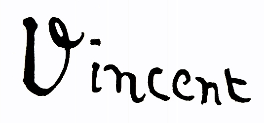 This signature is believed to be ineligible for copyright and therefore in the public domain because it falls below the required level of originality for copyright protection both in the United States and in the source country (if different). In this case, the source country (e.g. the country of nationality of the signatory) is believed to be France. Note that this tag cannot be used on all signatures, as not all signatures are copyright-free. See Commons:When to use the PD-signature tag for an explanation of when the tag may be used.